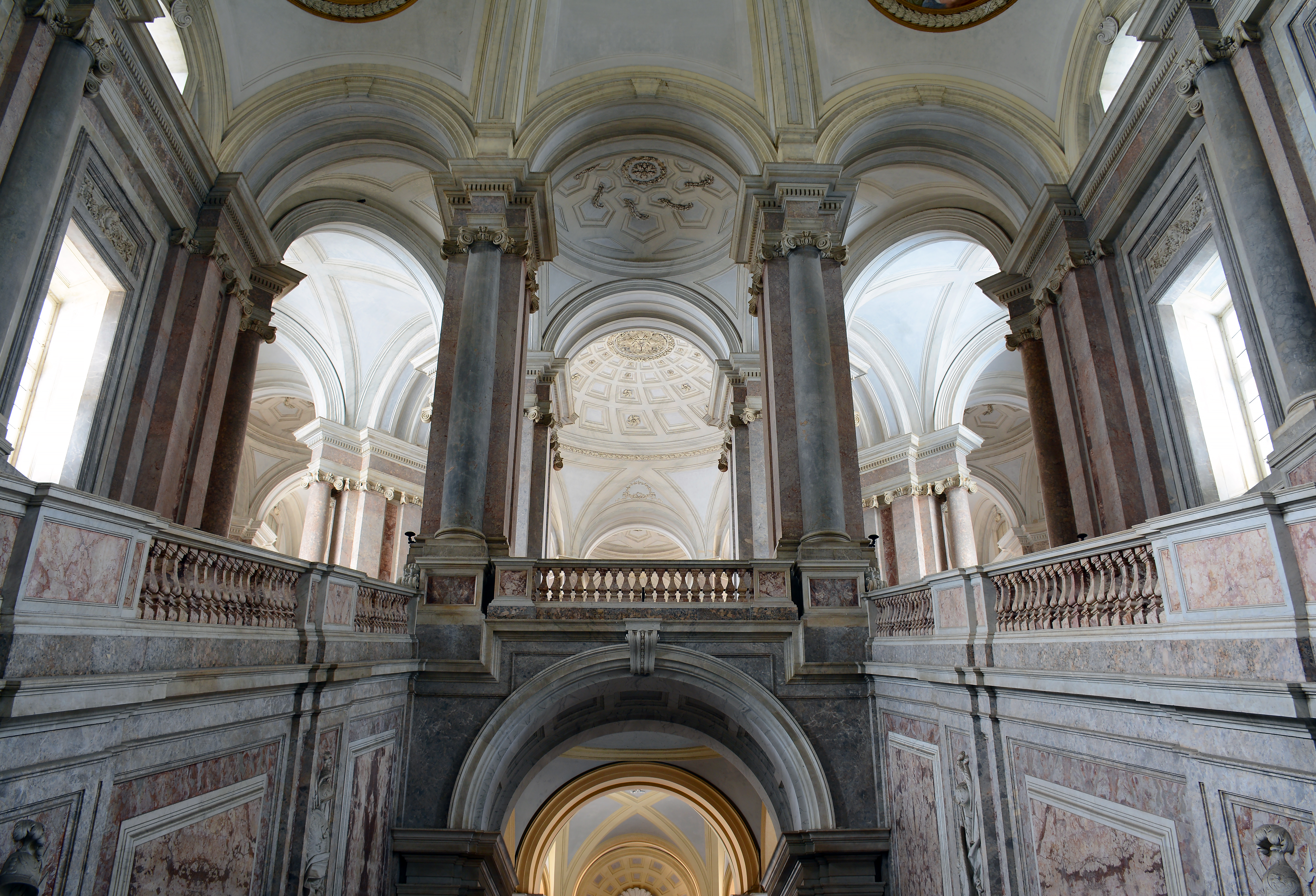 Honour Grand Staircase of the Palace of Caserta